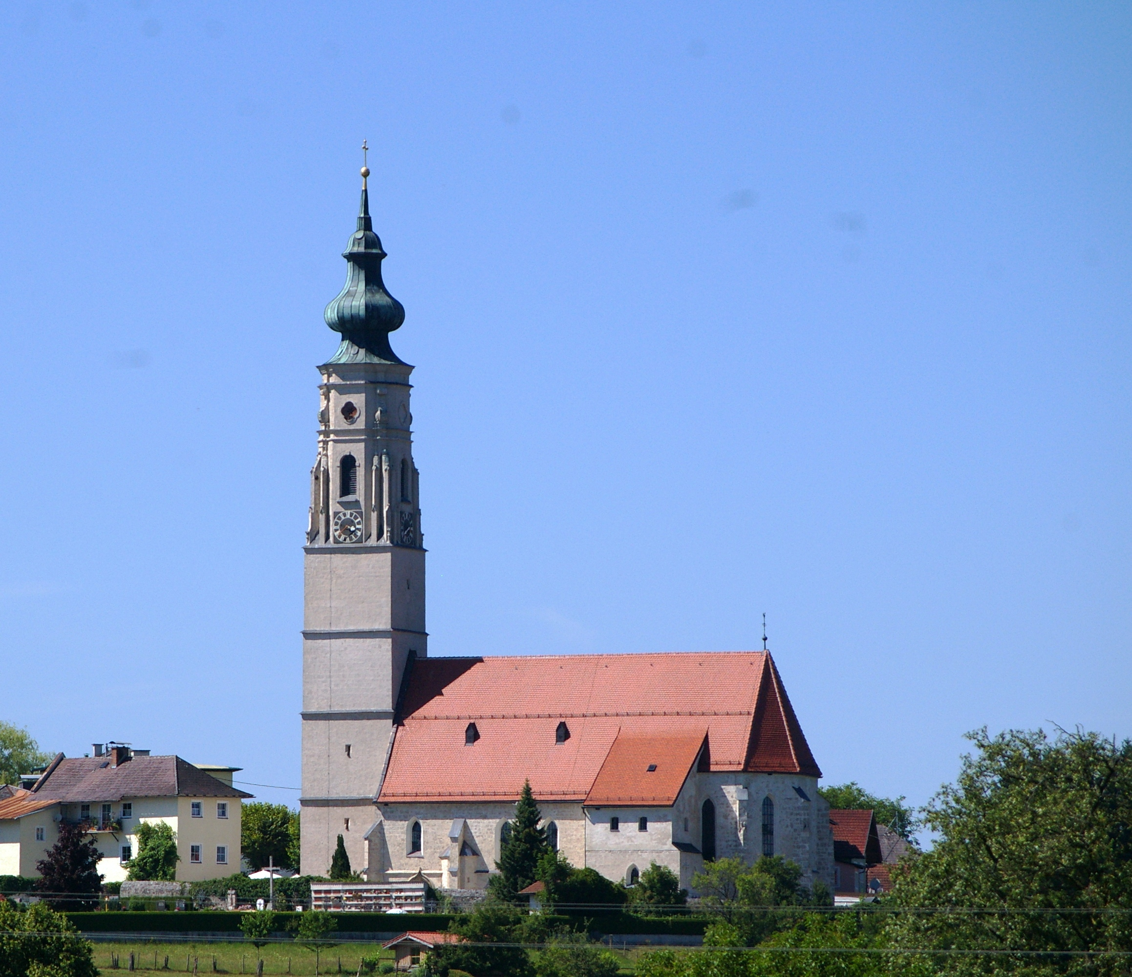 parish church